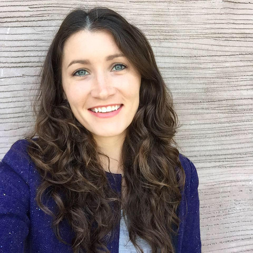 Seen here at Stanford in 2015.